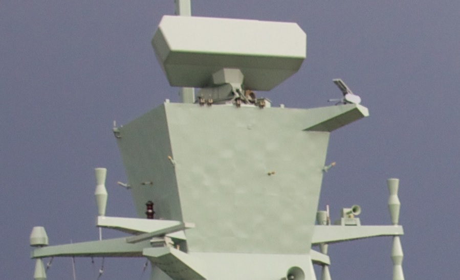 Smart s Radar 3d